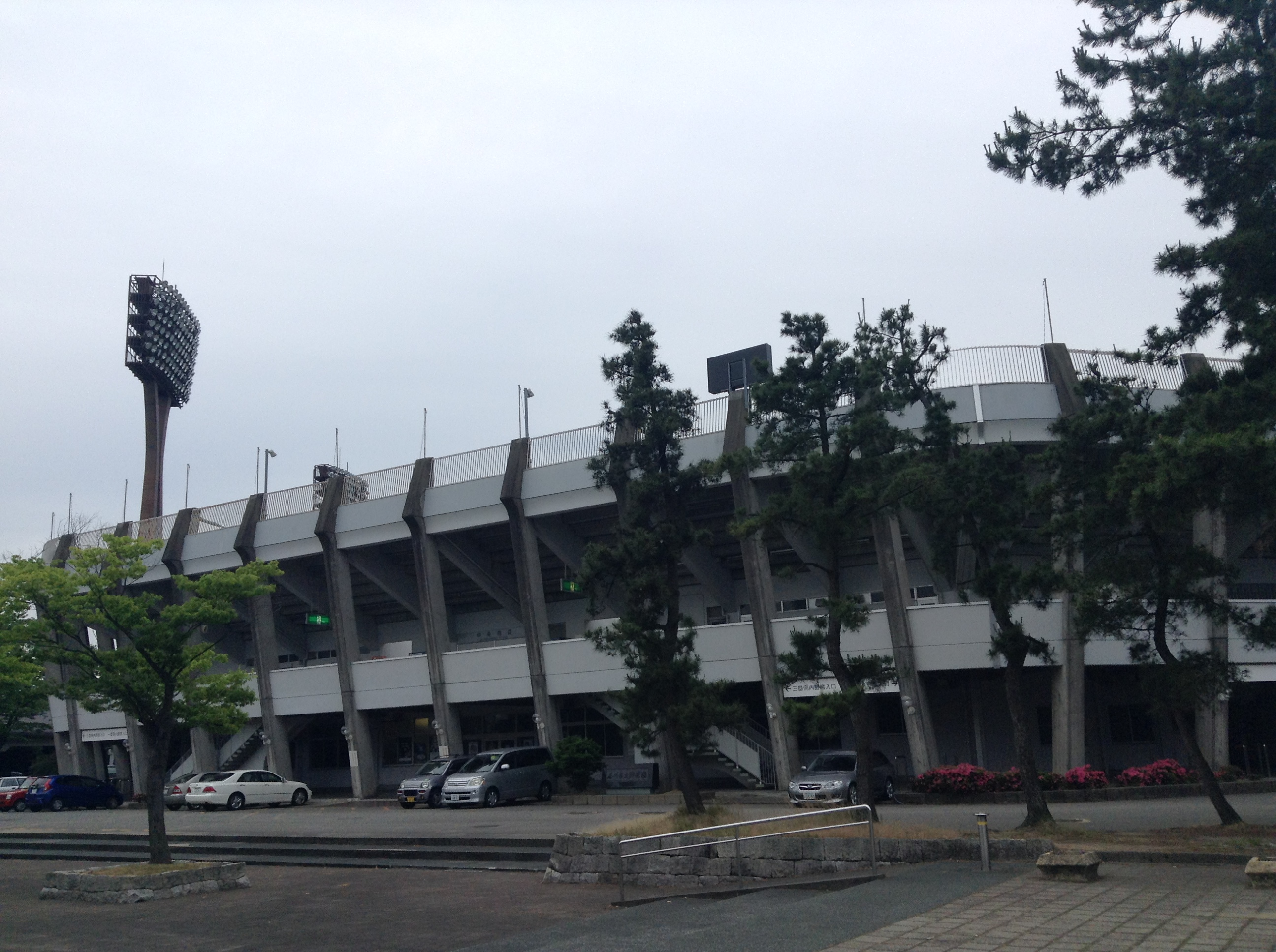 Ishikawa Baseball Stadium